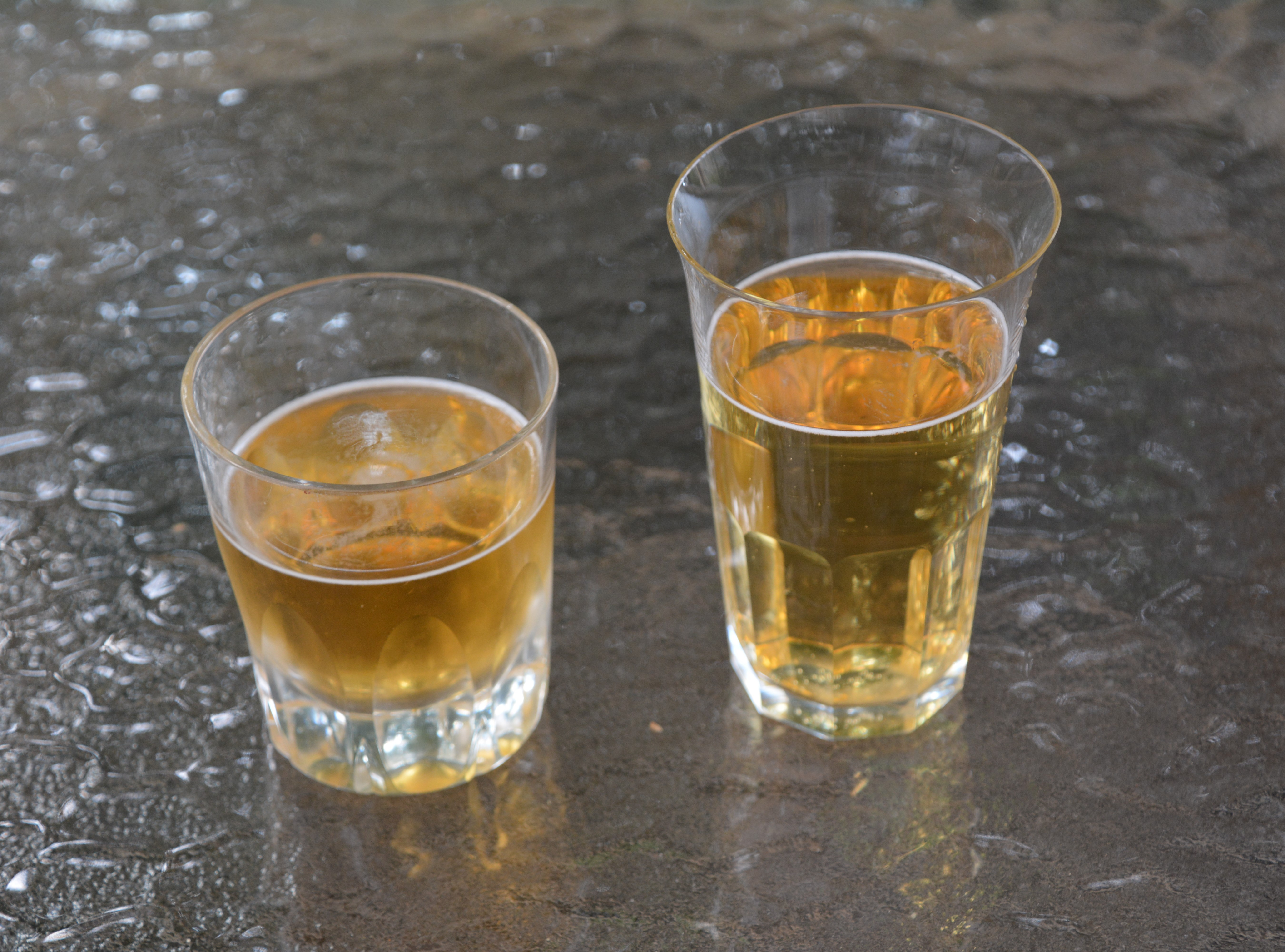 Grogglas